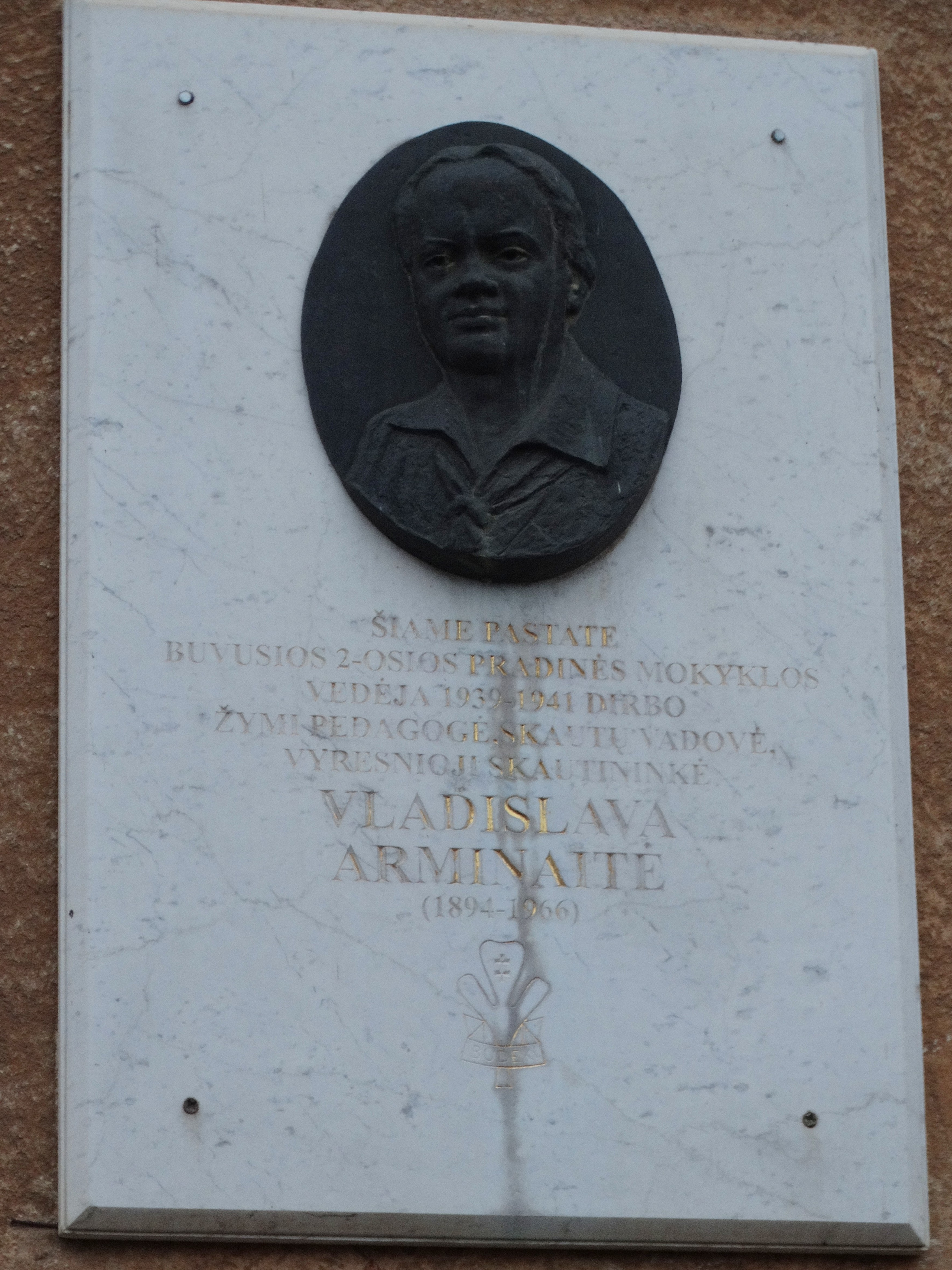 Memorial plaque of Vladislava Arminaitė, Kaunas, Lithuania